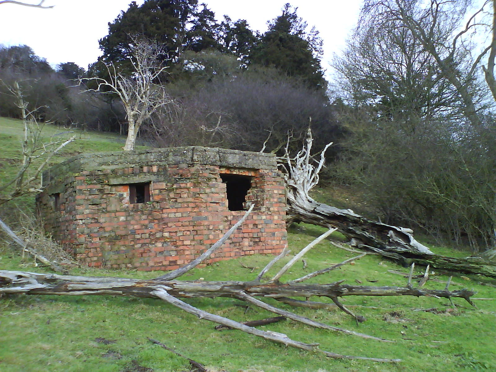 Pill Box There are quite a few WW2 defences still to be found around the edges of Box Hill and around the River Mole.